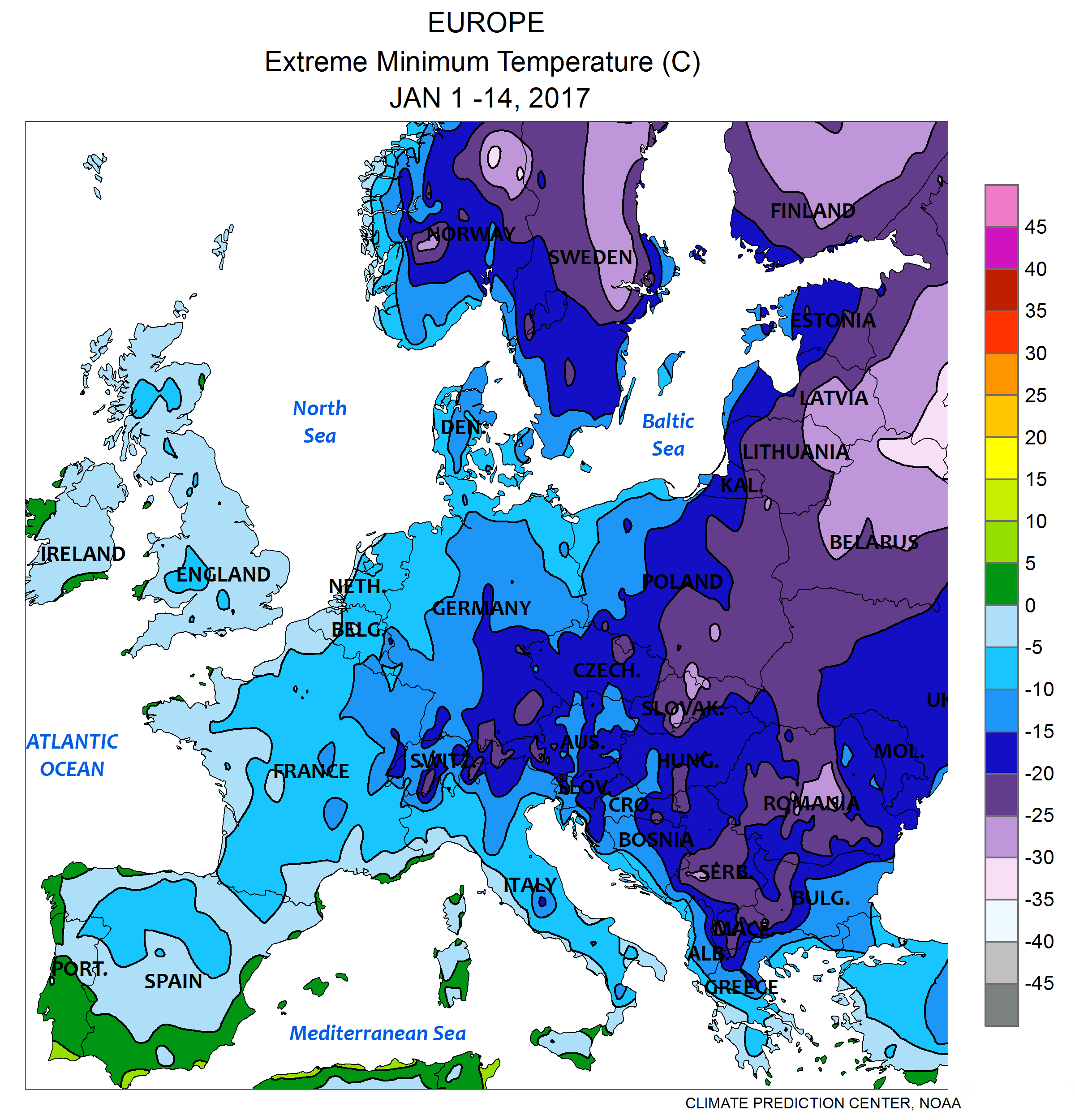 Europe: Extreme minimum temperature January 1 - January 14, 2017, 2017, computer generated contours, based on preliminary data; 2 weeks combinded (files cropped),January 2017 European cold wave.